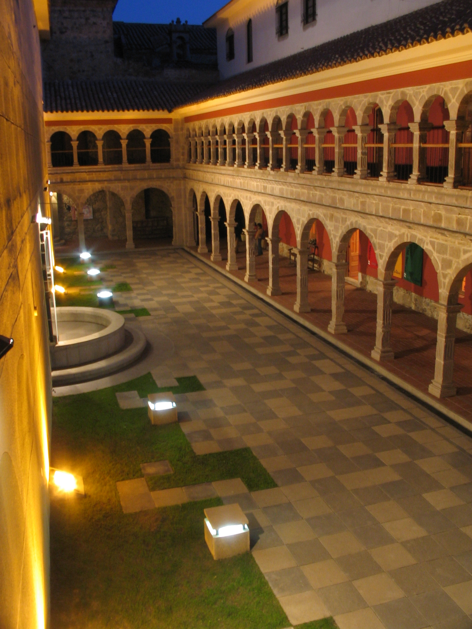 Inside of San Francisco in La Paz, Bolivia Photo's Author : User:Anakin